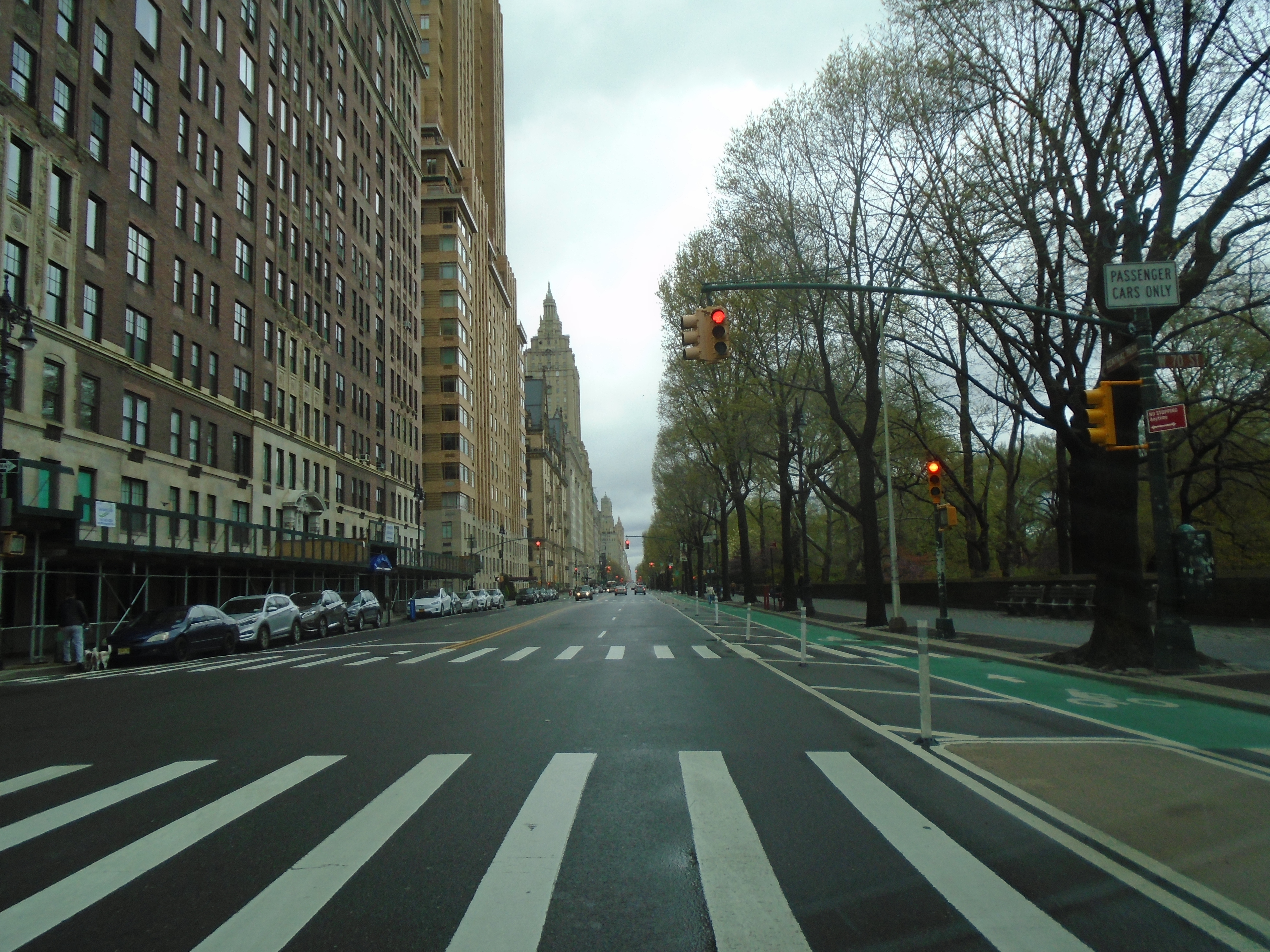 Central Park West in April 2020 when the city was on shutdown.